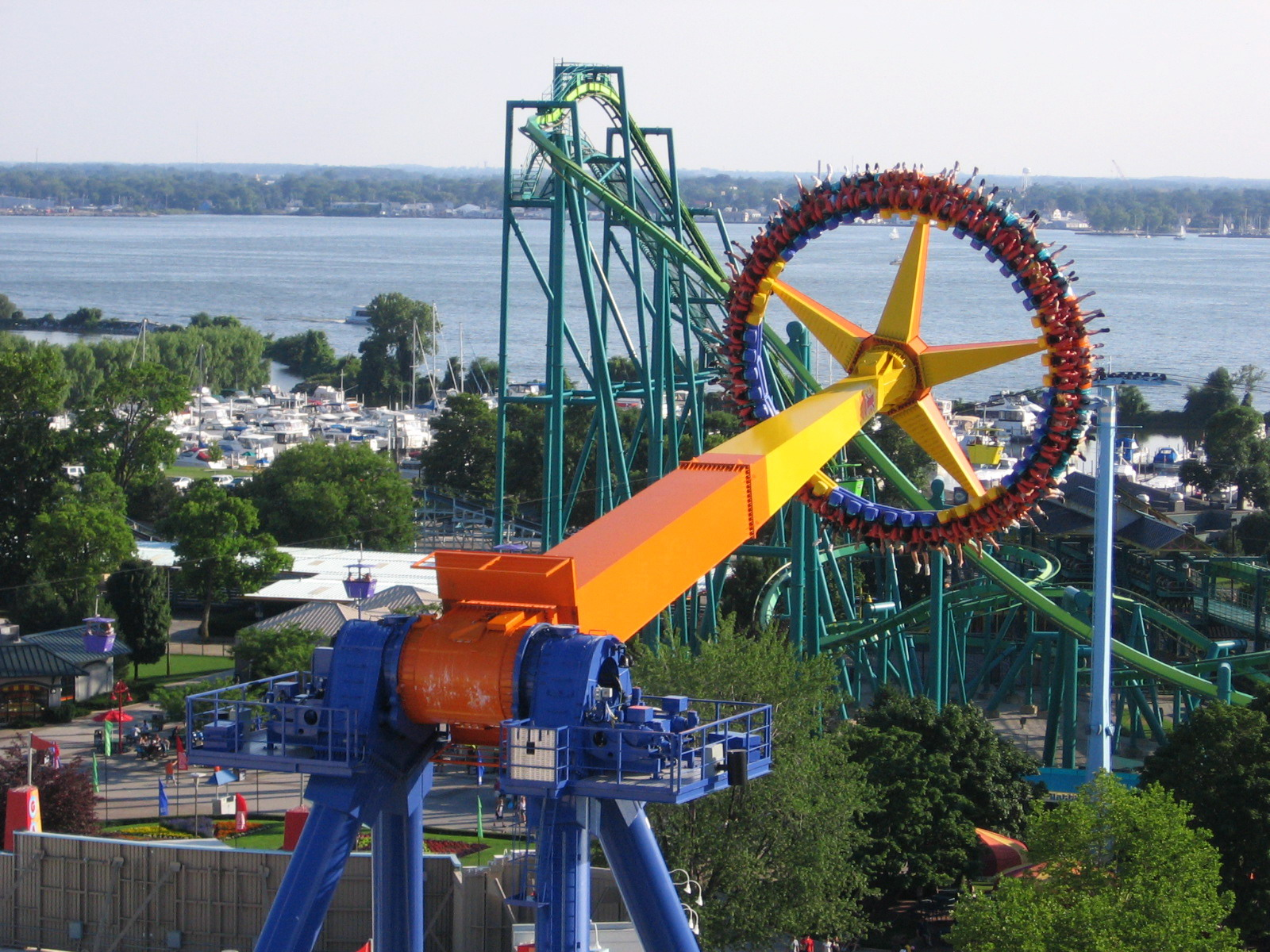 maXair thrill ride at Cedar point, Sandusky, Ohio